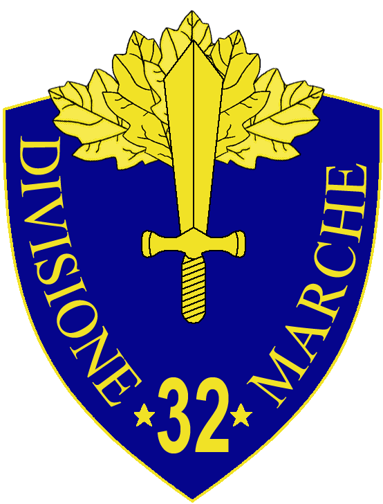 32a Divisione Fanteria Marche insignia, Regio Esercito, Italy, WWII